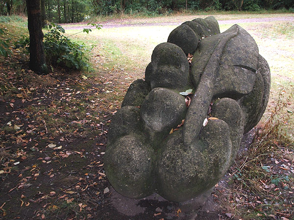 The 1986 National Garden Festival placed sculpture at its centre. Some works still remain on the site as of 2005, such as this early work by Dhruva Mistry.